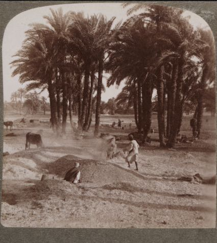 Laborers winnow grain